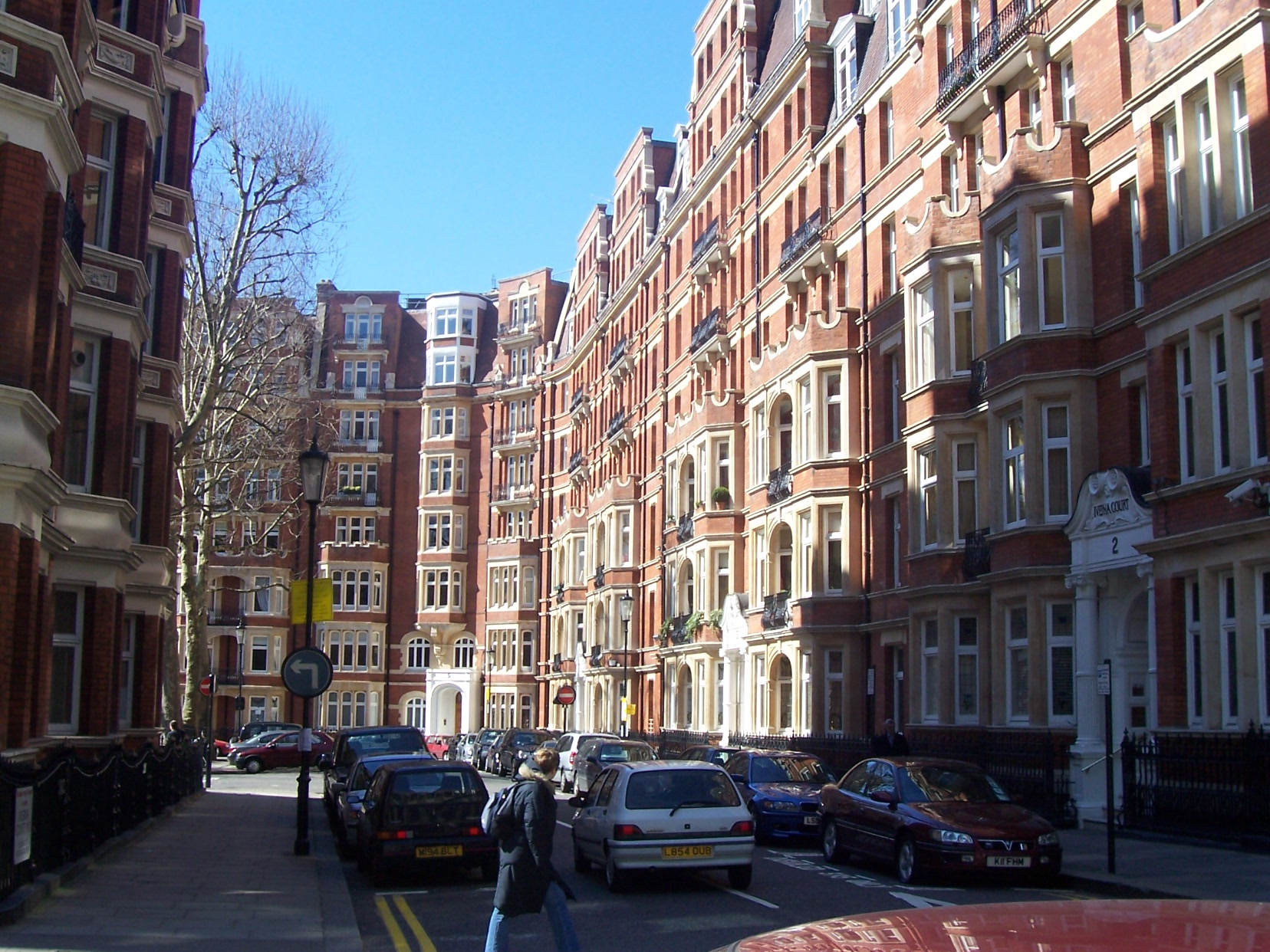 A wealthy area in Kensington, that is just south of Kensington High Street. (Original: This is a picture of some picturesque buildings in the area of Kensington, London, UK. This street is just south of Kensington High Street.)